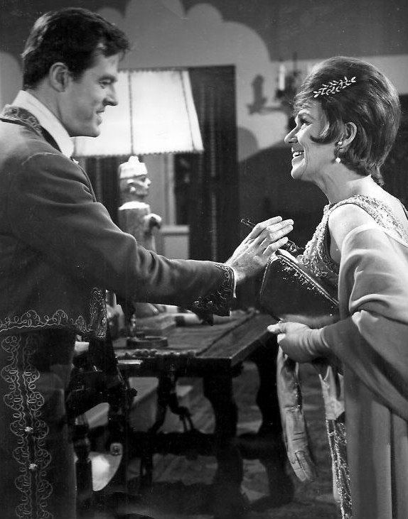 Photo of Robert Culp and Jeanette Nolan from the television program I Spy.